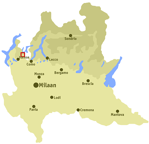 Position of the valley Valceresio